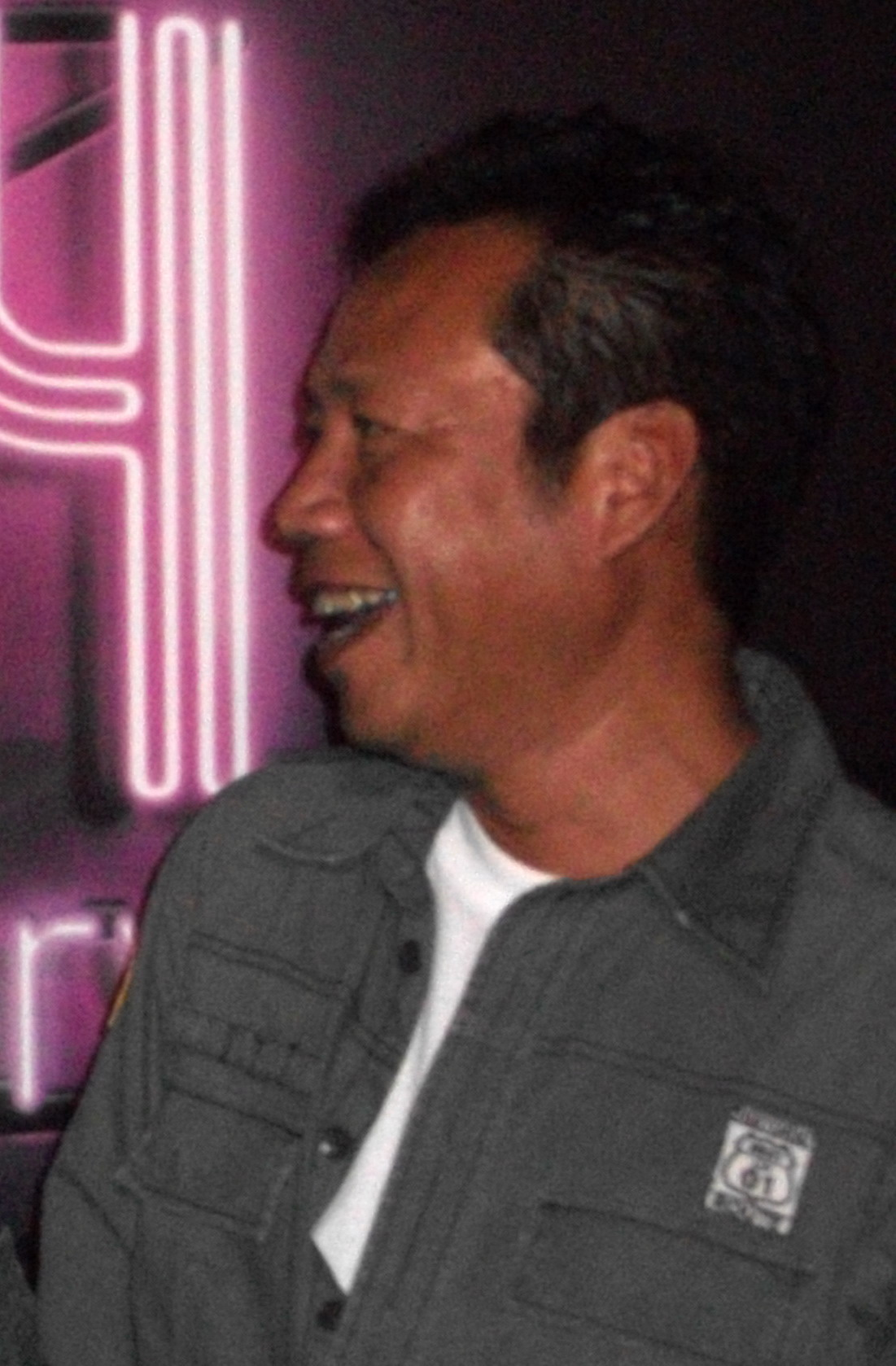 Nonzee Nimibutr at MTV 8th anniversary